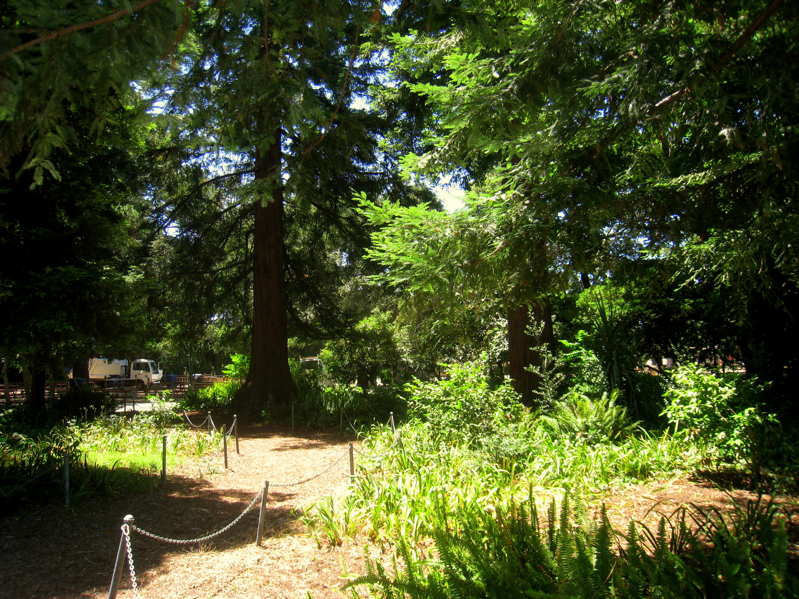 San Mateo Arboretum, San Mateo, California, USA.